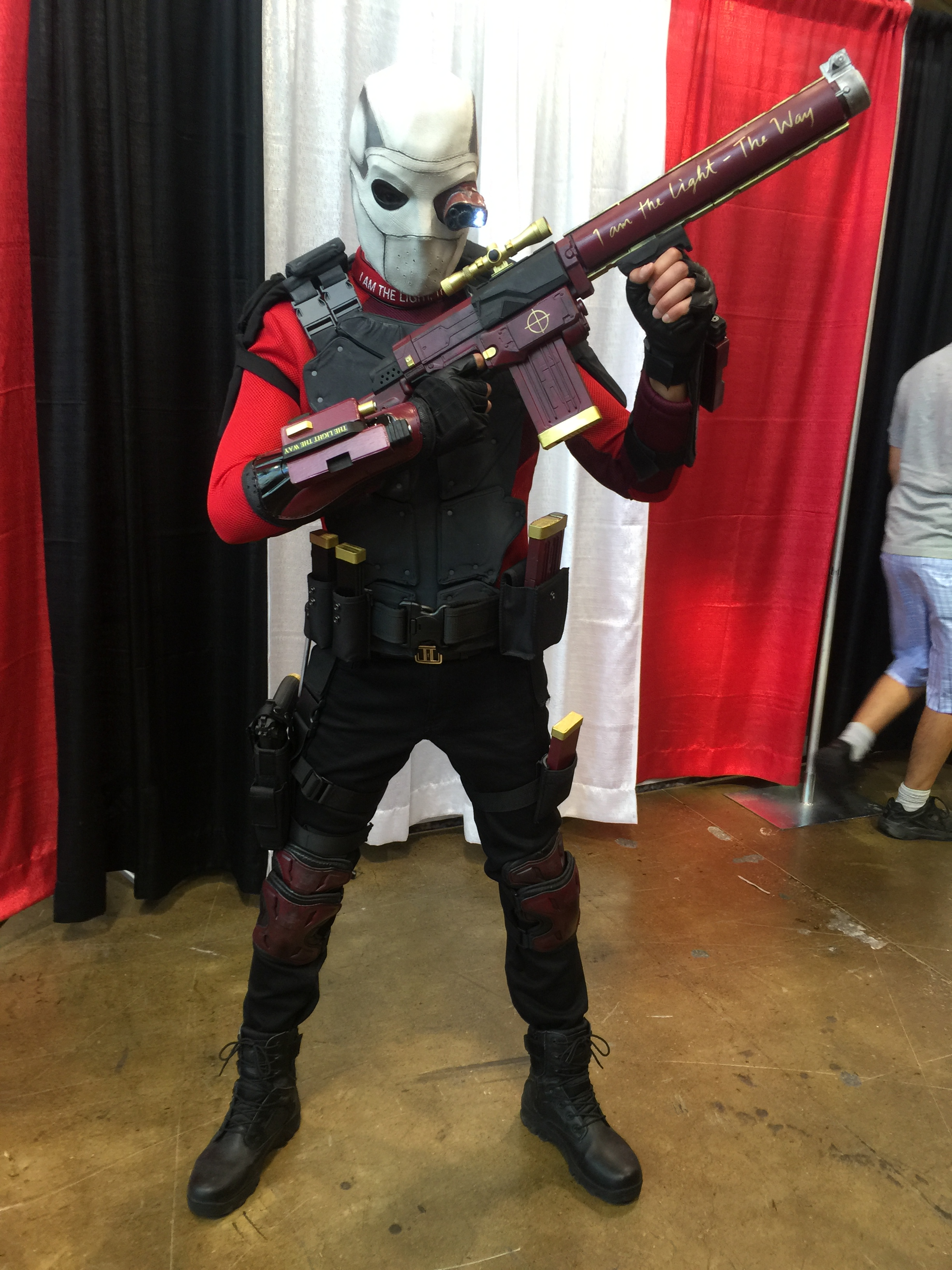 Cosplay at 2016 Fan Expo Canada.